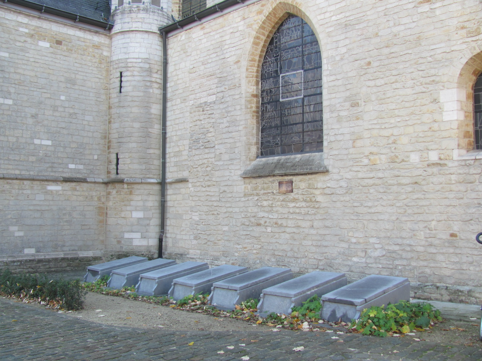 Seven Congolese civilians died during their stay in Tervuren (Belgium) in the summer of 1897. They were transported by ship to Europe to be "exhibited" at the World Fair held in Brussels and Tervuren.